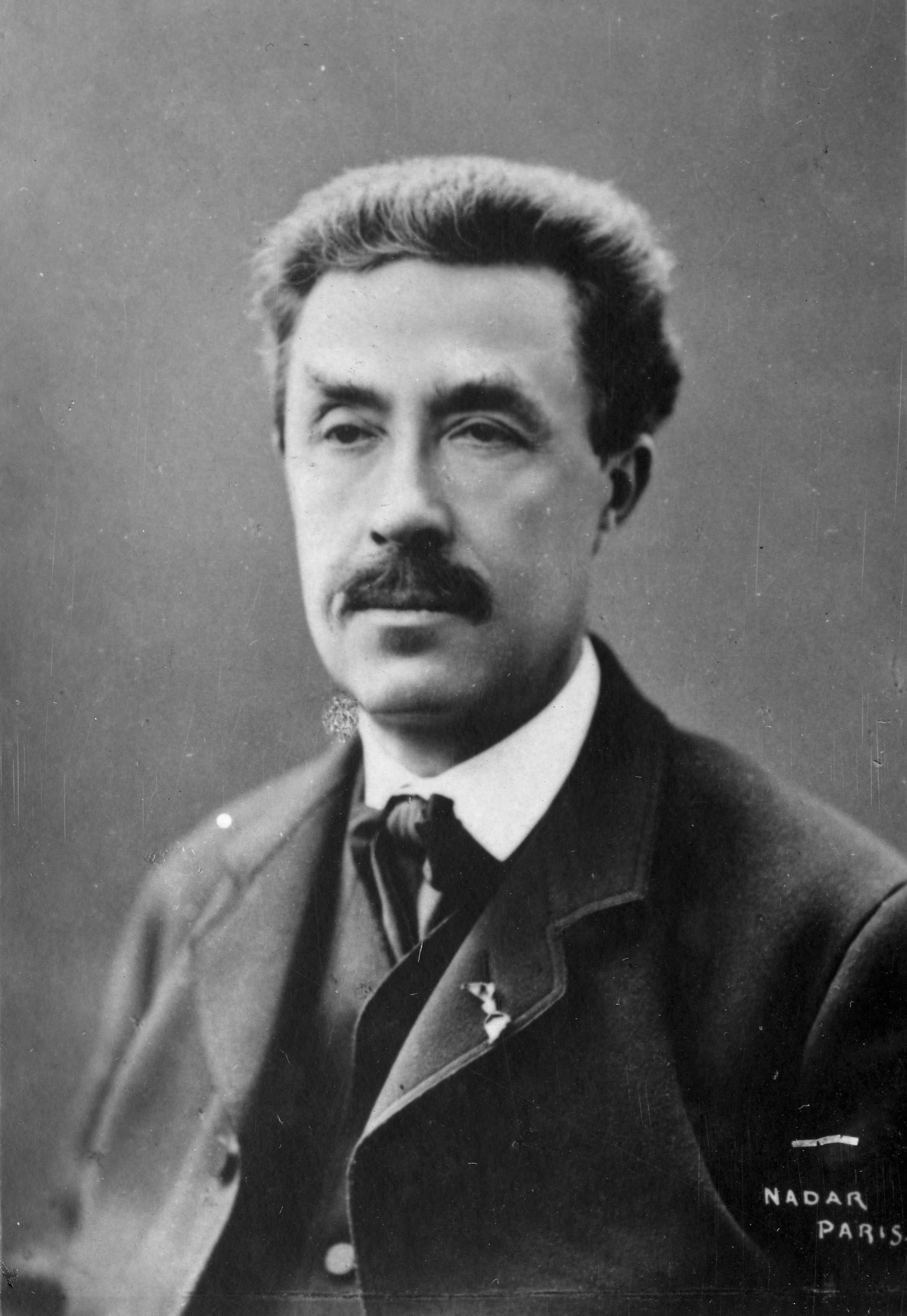 Emmanuel Frémiet (1824-1910), French sculptor